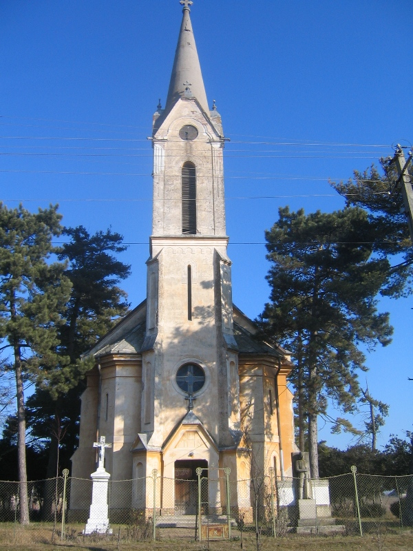 Roman Catholic church in Sânpetru Mic/Kleinsanktpeter/Totina, Romania